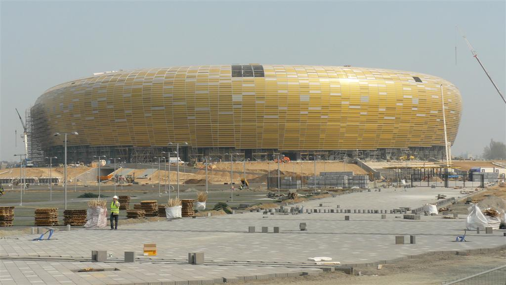 PGE Arena Gdańsk - construction site at 2011-04-22